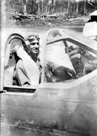 78144 Sergeant (Sgt) Leonard Victor Waters, 78 Squadron, RAAF, sitting in the cockpit of a P40N Kittyhawk, possibly 'Black Magic'. Sgt Waters was the only known Australian Aboriginal fighter pilot of the Second World War. He joined the RAAF on 24 August 1942 and was trained as a flight mechanic. When the RAAF called for aircrew trainees he applied and was accepted for pilot training. He undertook his initial training at 1 Elementary Flying Training School (1EFTS), Narrandera, NSW, before graduating as a Sgt pilot from 5 Service Flying Training School (5SFTS), Uranquinty, NSW. His training continued at 2 Operational Training Unit (2OTU), Mildura, Vic, from where he was posted to 78 Squadron on 14 November 1944. He flew 95 operational sorties with 78 Squadron, operating from Noemfoor, Morotai and Tarakan. Sgt Waters was promoted to Flight Sergeant on 1 January 1945 and to Warrant Officer on 1 January 1946. He was discharged from the RAAF on 18 January 1946. Leonard Waters died on 25 August 1993.